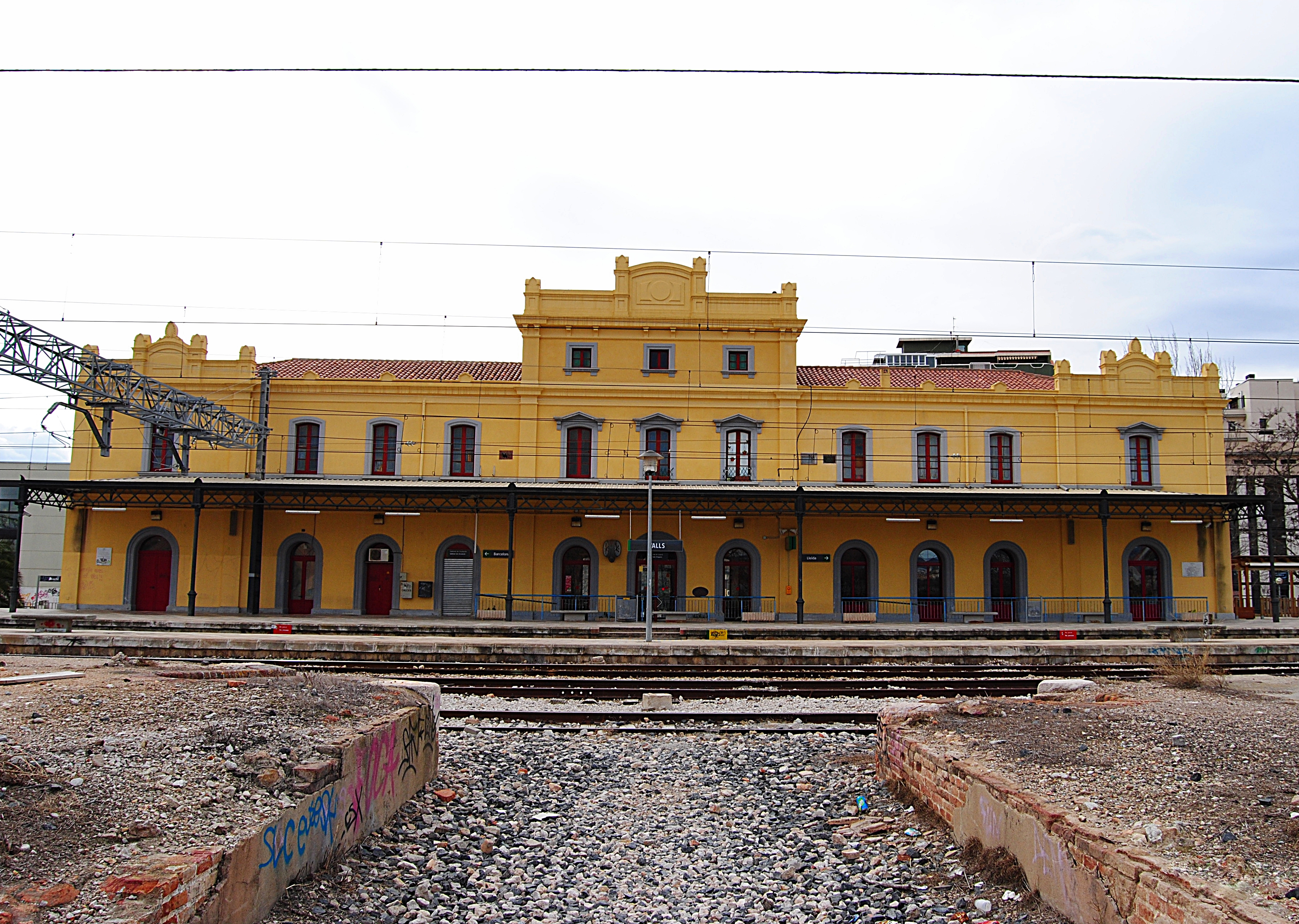 Mig abandonada.Removed watermark: Gerard Reyes D3000